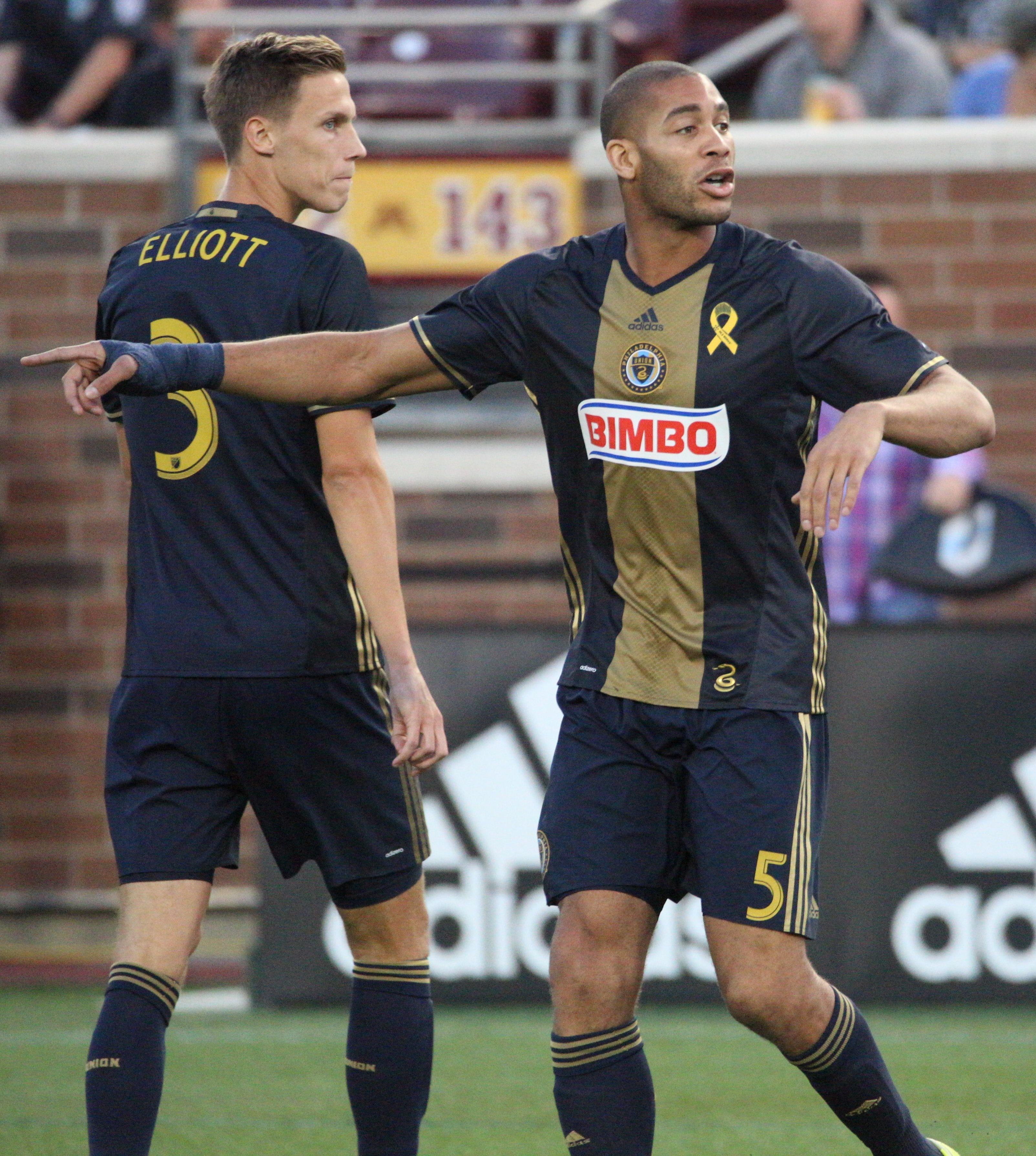 Oguchi Onyewu - Philadelphia Union - MLS - Soccer